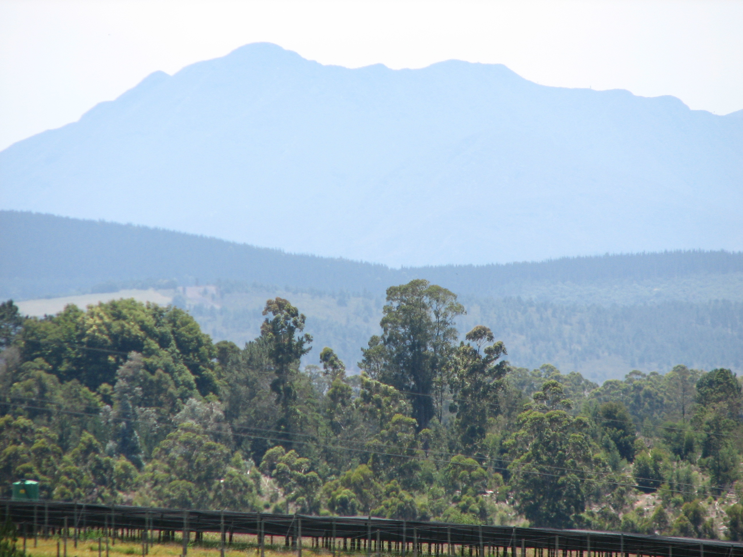 Langkloof Mountains, in December 2006